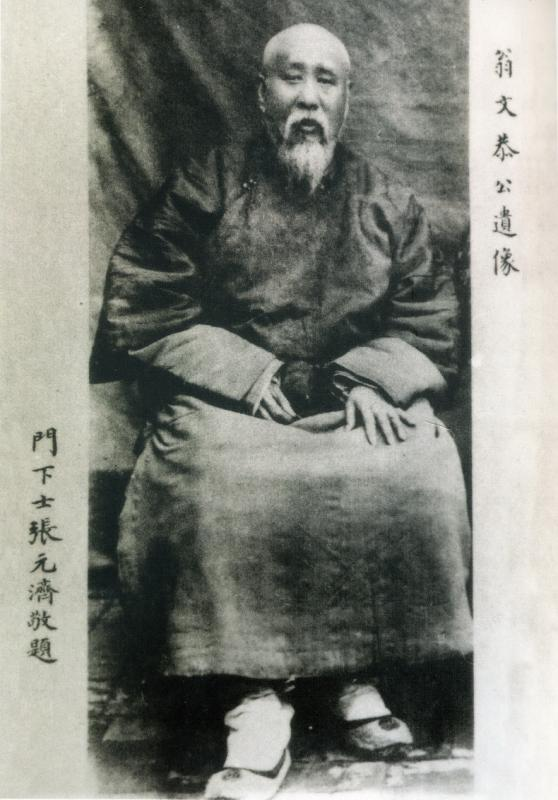 Weng Tonghe (1830 - 1904), was a Chinese politician in the late Qing Dynasty.